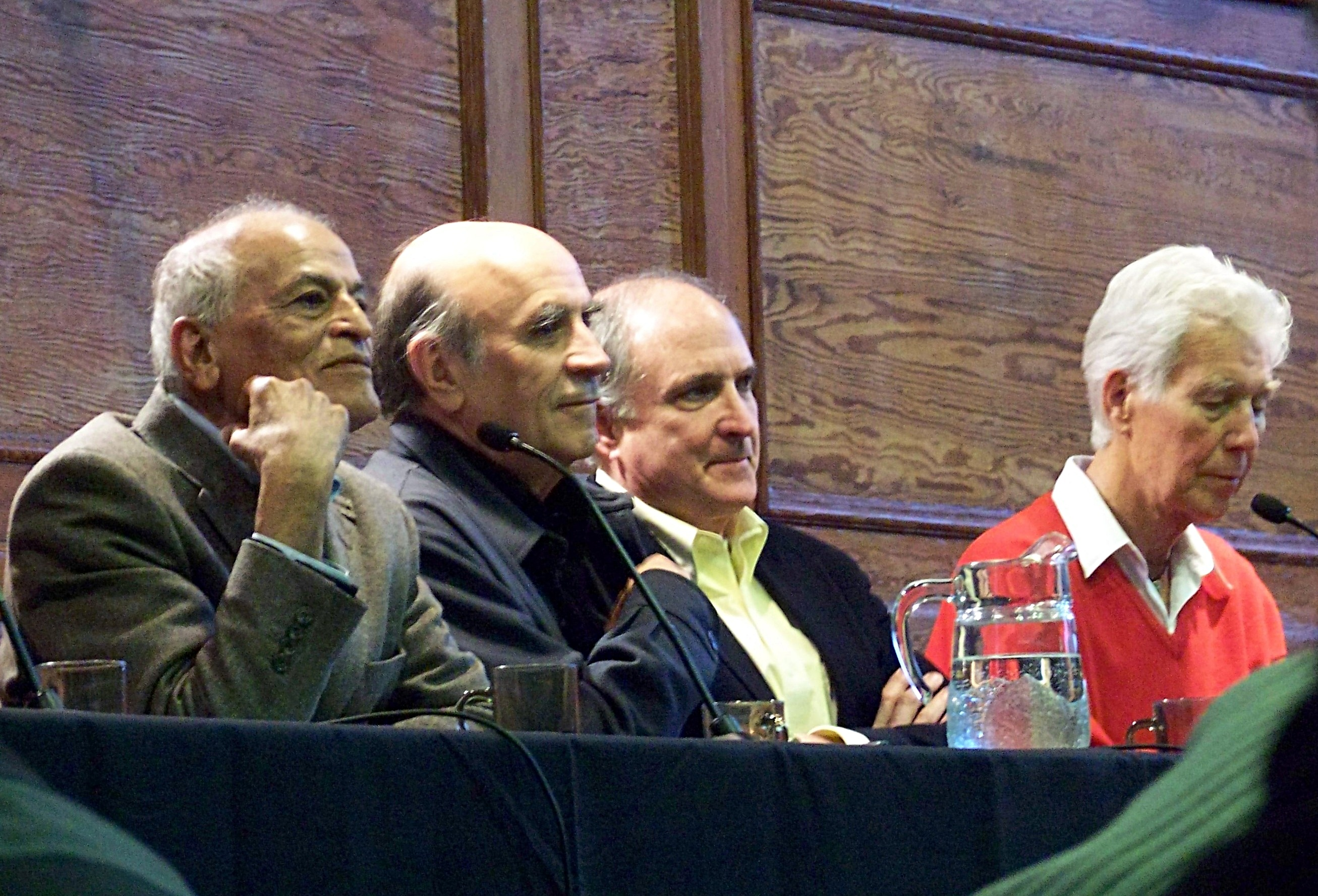 Satish Kumar, Gustavo Esteva, David Orr and Brian Goodwin.